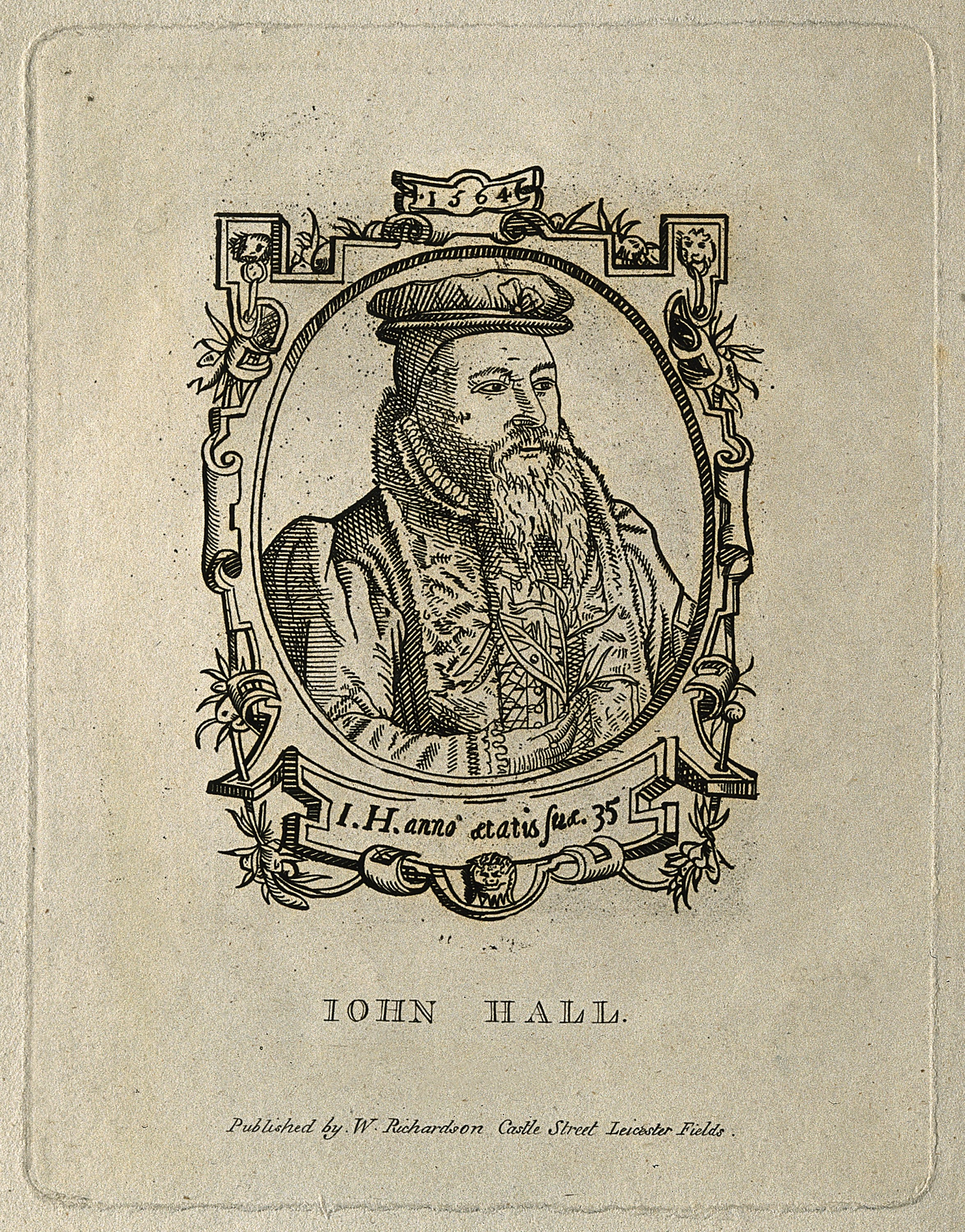 John Hall. Woodcut, 1565. Iconographic Collections Keywords: portrait prints; woodcuts; John Hall